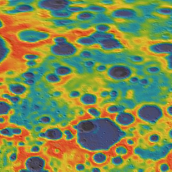 Coulomb-Sarton_Basin gravity map (red=high, blue=low). Generated from GRAIL Colorized Gravity Anomalies (JPL) layer with LRO-WAC Shaded Relief at 30% opacity overlain.